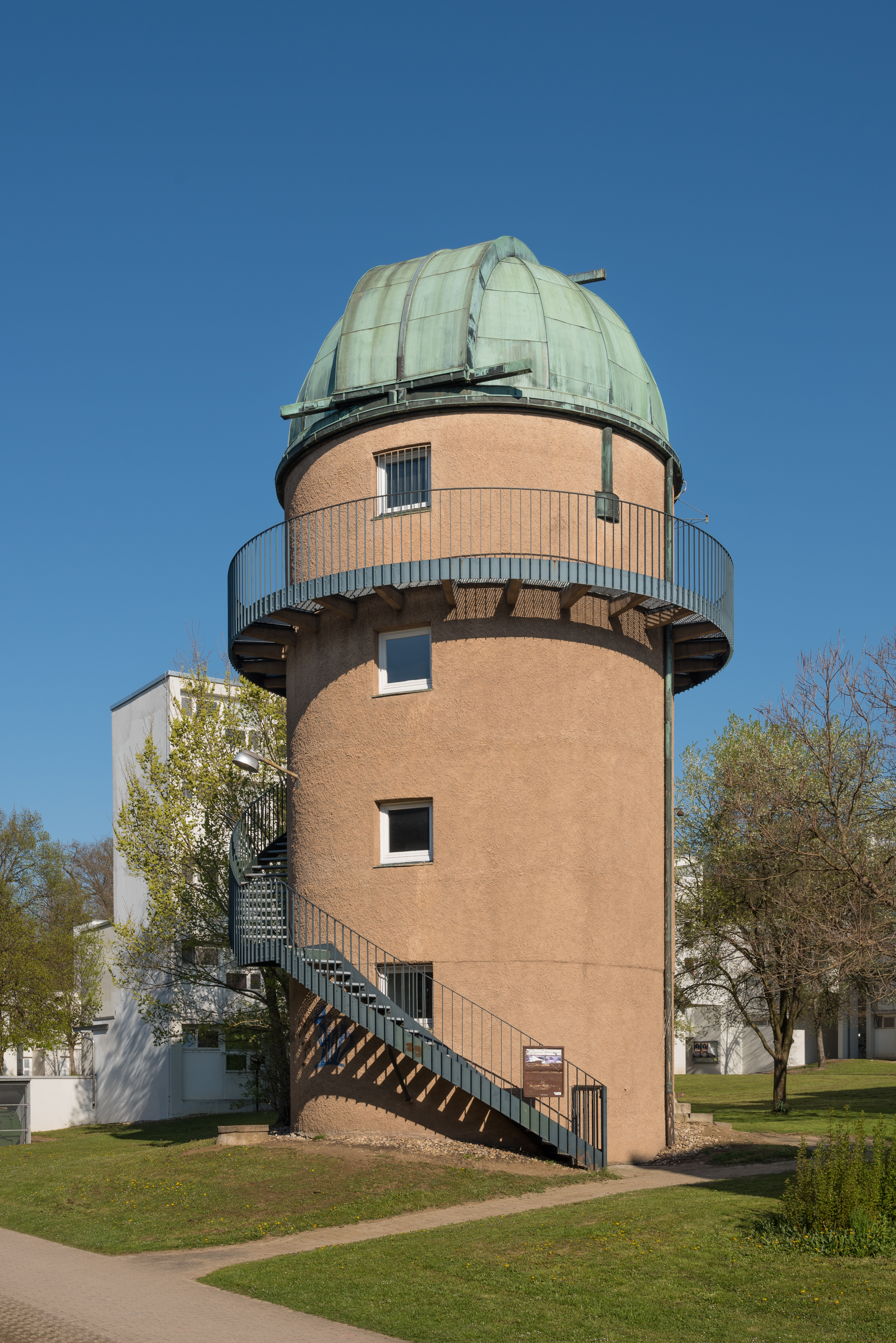 The Oberservatory Pfaffenwald on the campus of the University of Stuttgart, Vaihingen, Germany.